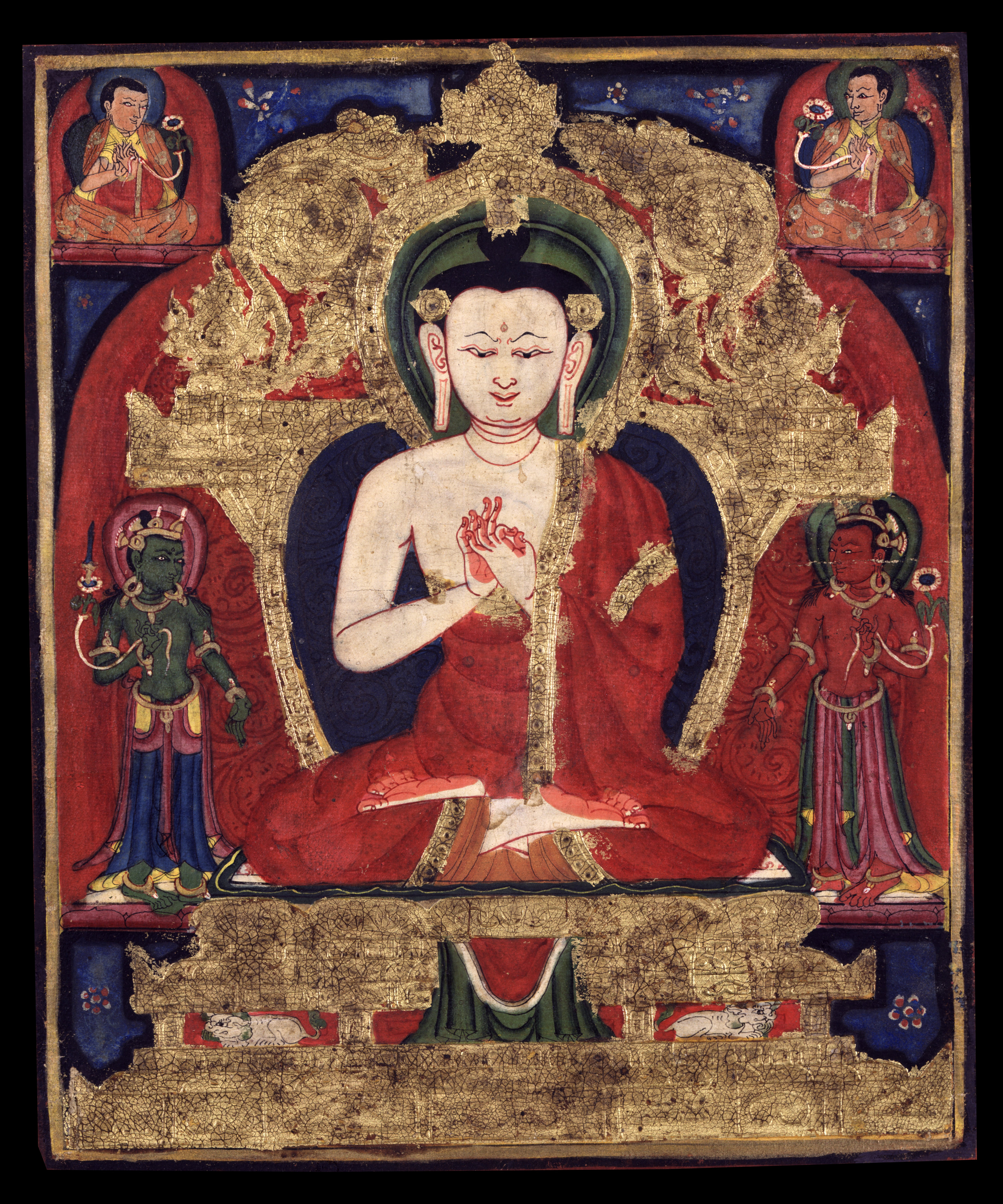 This representation of Buddha Vairocana, the “Resplendent One,” features several of his defining characteristics, including his white color, performing the teaching gesture (dharmacakramudra), and sitting on an elaborate lion throne. The two bodhisattvas flanking him—one green and carrying a sword, the other red and holding a lotus—and the teachers in the upper corners cannot be identified with certainty. This painting was likely part of a set and only the knowledge of the whole set enables the identification of the secondary figures.